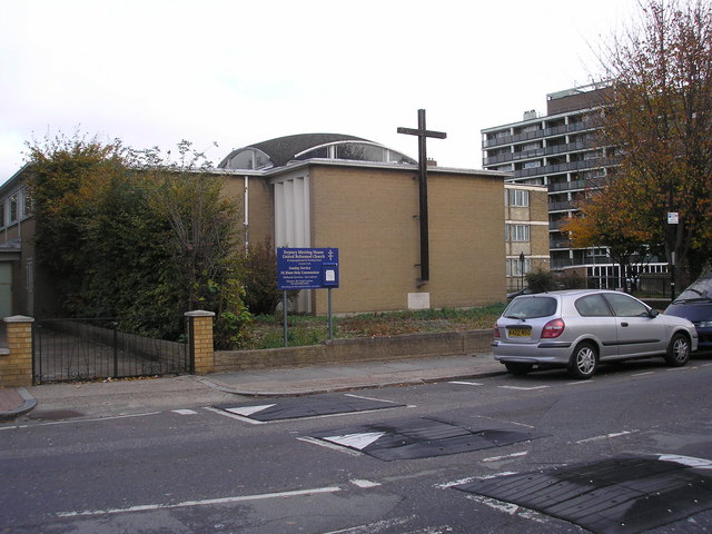 Stepney Meeting House, United Reformed Church, Stepney Way, East London Although it clearly is a church, this building calls itself a 'meeting house'. This modern building houses a congregation which dates back to 1644. As they were dissenters, they were not then allowed to use the term 'church', so when they acquired their first building in the 18th Century, the term 'Meeting House' was used, and in modern times is a pleasing link with history. The building itself shows that it is still possible in modern times to construct something whose lines are pleasant and harmonious.